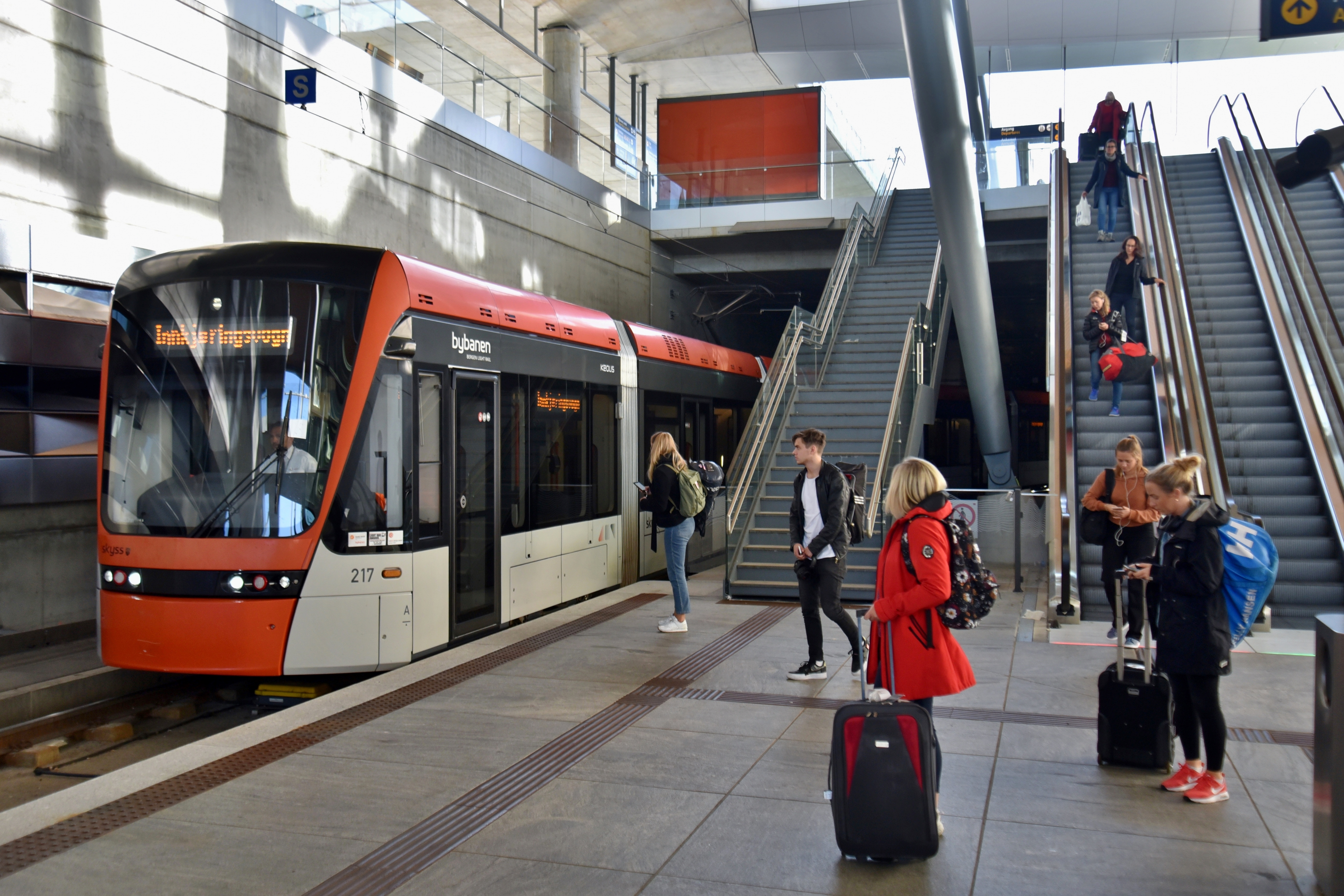 Skyss Stadler Variobahn tram no. 217 entering the Bergen Airport light rail stop, Bergen, Norway from the layover and reversing tracks, on an "out of service" movement